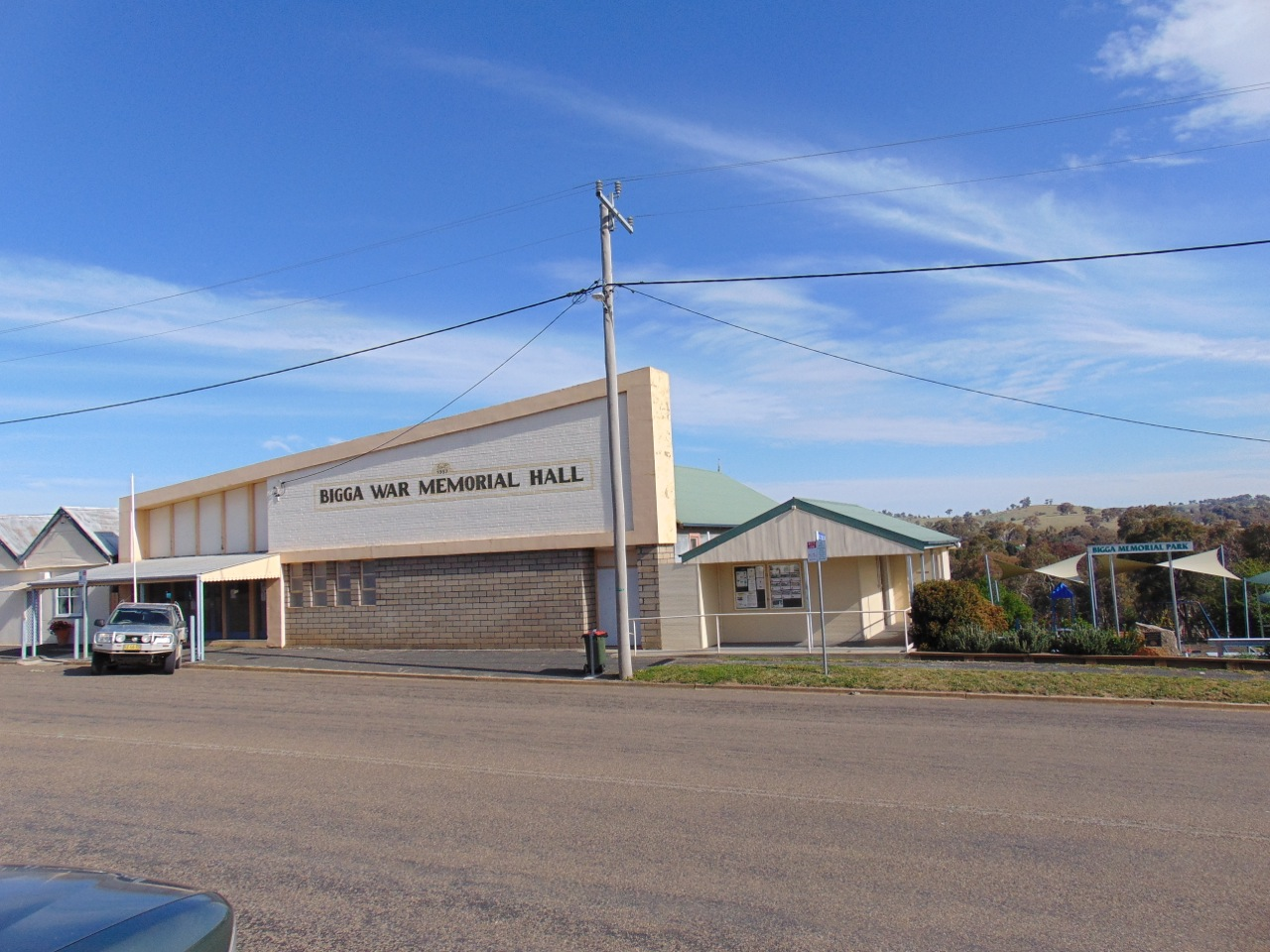 Bigga NSW, memorial hall, Binda Street